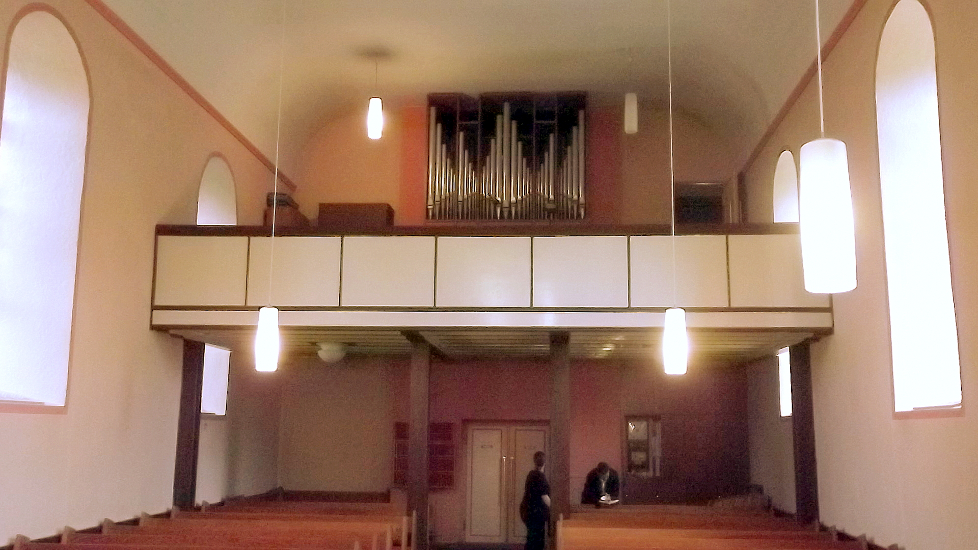 Interior of the protestant church in Nohfelden, Saarland, Germany